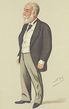 Caricature of Sir Albert Abdallah David Sassoon. Caption read "The Indian Rothschild".